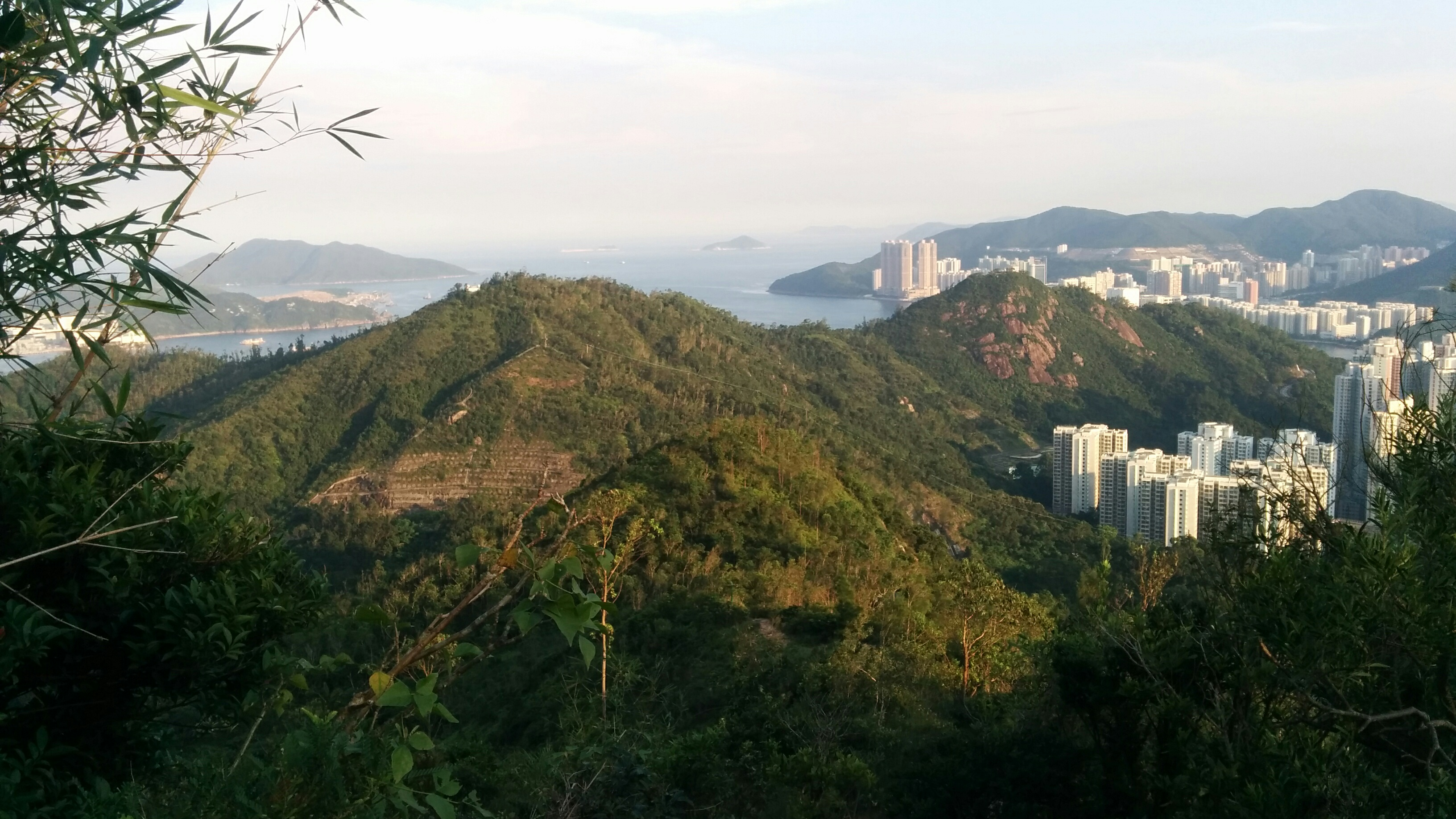 Chiu Keng Wan Shan is on the left, and Devil's Peak is on the right. Photo taken from Black Hill, Kowloon, Hong Kong